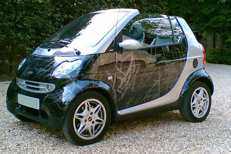 Smart Fortwo Cabrio - Silver and Scratch Black